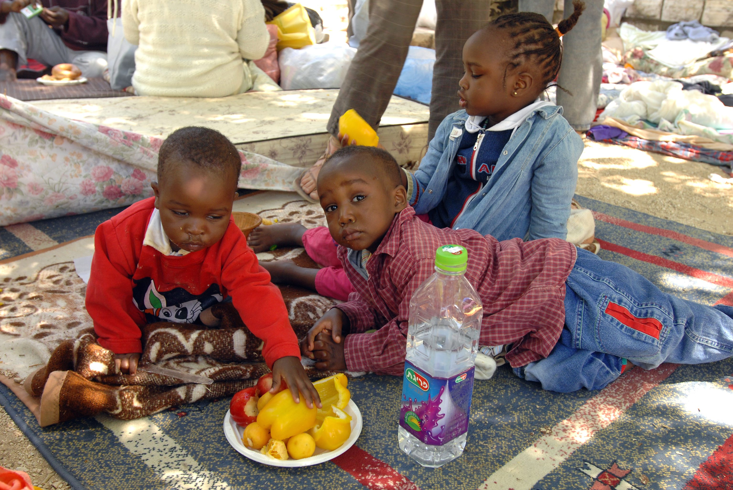 Refugees from Sudan's Darfur region staying in the Rose garden in Jerusalem. Photograph: Moshe Milner (1946–) Alternative names Miylner, Moše; Milner, Mosheh; Moshé Milner; Milner, M.; Mîlner, Moše; Miylner, MošehDescriptionIsraeli photographerצלם ישראליDate of birth 1946 Location of birth Germany Authority control : Q28750411 VIAF: 100999744 ISNI: 0000 0001 0804 0507 LCCN: n82072104 GND: 115699732 BNF: 15548788n WorldCat creator QS:P170,Q28750411 , GPO. 10/07/2007